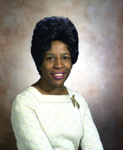 Representative Peggy Joan Maxie, 1973